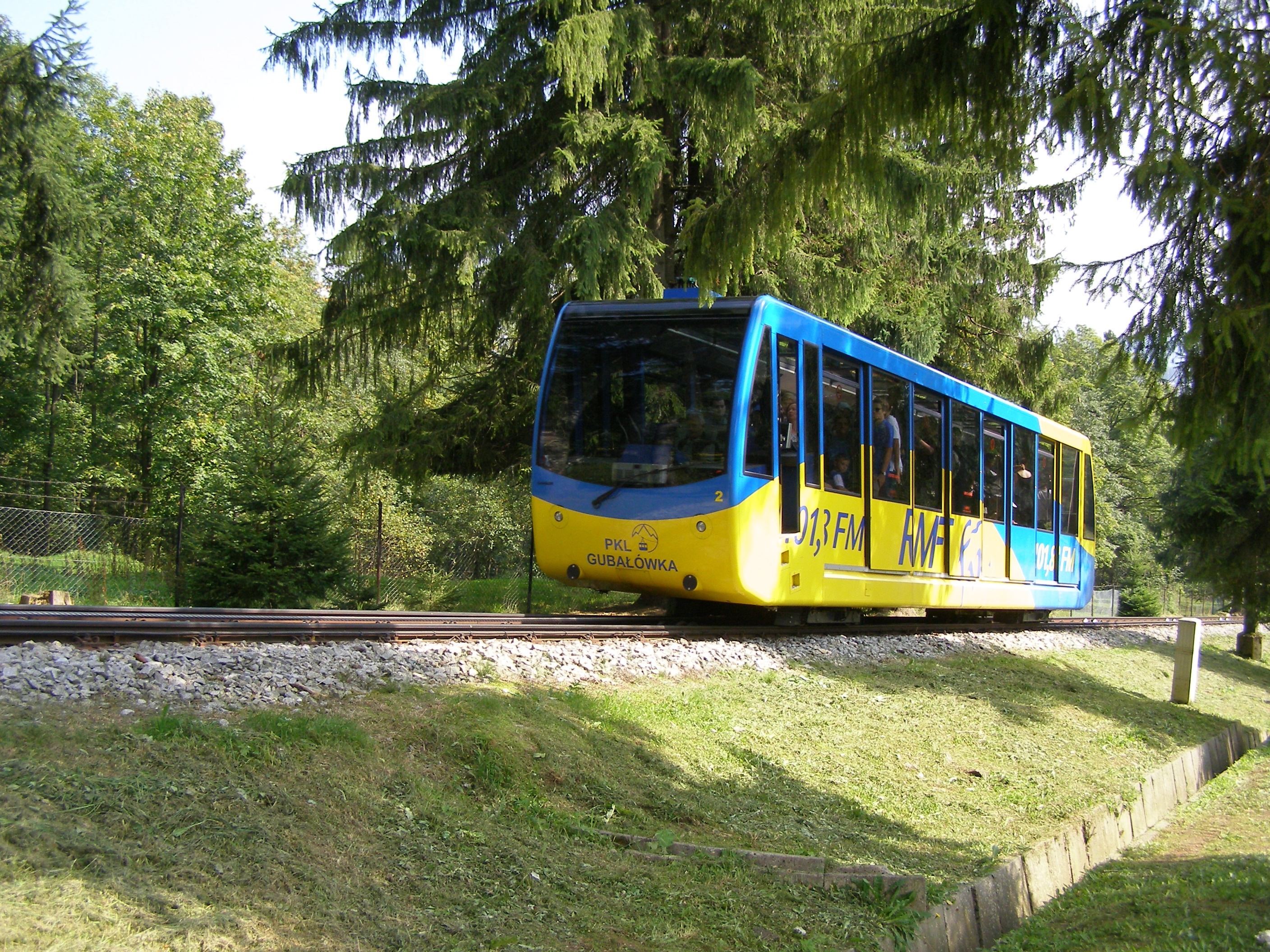 Zakopane - Gubałówka Funicular